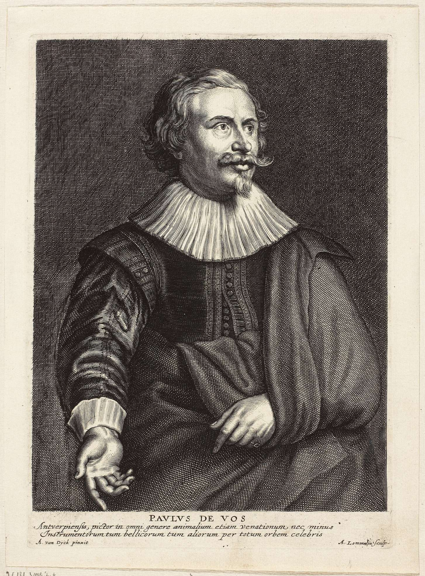 Portrait of Paul de Vos